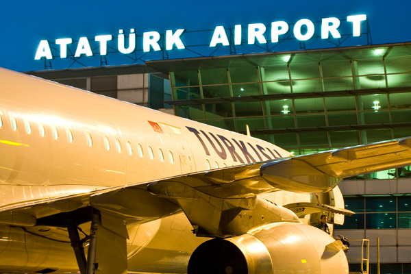 istanbul